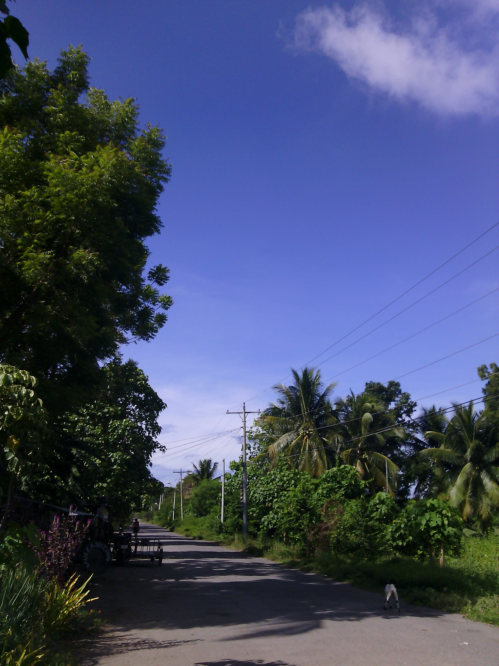 On the street of Purok 1, in Barangay Buayan of General Santos City, in South Cotabato province, Mindanao.